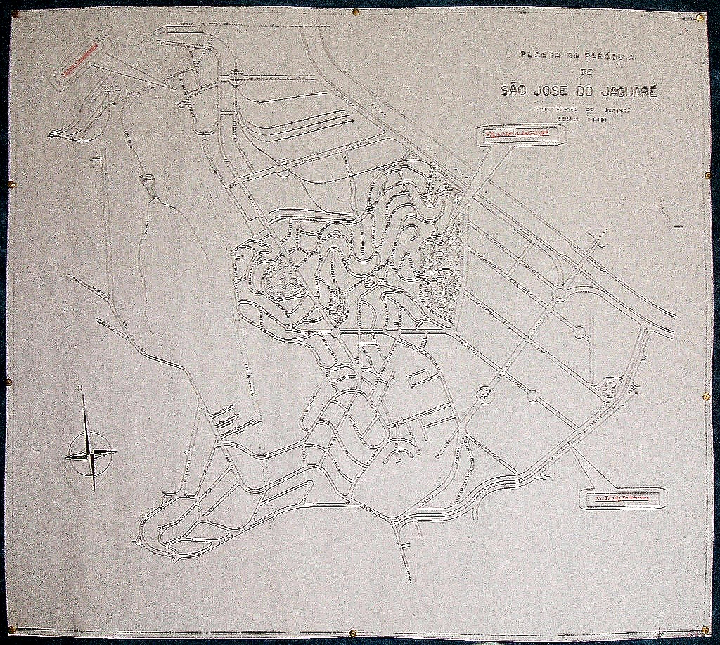 Project of Jaguaré neighborhood, after original project by Henrique Dumont Villares.